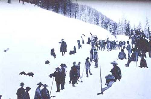 Chinese workers employeed for the construction of the first Transcontinental Railroad of the US.